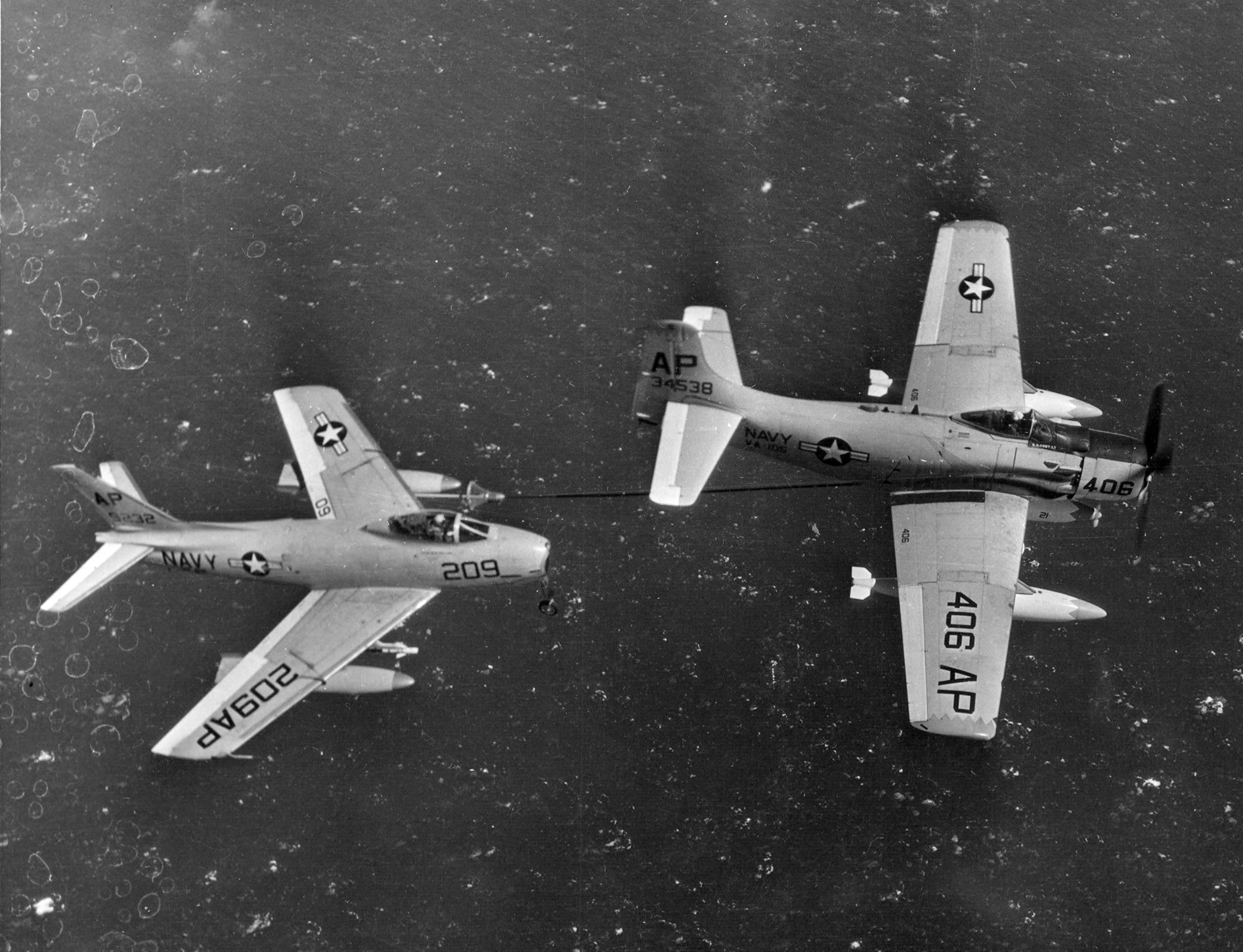 A U.S. Navy Douglas AD-6 Skyraider (BuNo 134538) from Attack Squadron VA-105 Mad Dogs refueling a North American FJ-3M Fury (BuNo 139232) of Fighter Squadron VF-62 Boomerangs. Both squadrons were assigned to Air Task Group 201 (ATG-201) aboard the aircraft carrier USS Essex (CVA-9) for a deployment to the Mediterranean Sea, the Indian Ocean and the Western Pacific from 2 February to 17 November 1958.Note the AIM-9B Sidewinder missile on the Fury and the extended landing gear, to be able to fly as slow as the Skyraider. The propeller of the refueling pack is also clearly visible.